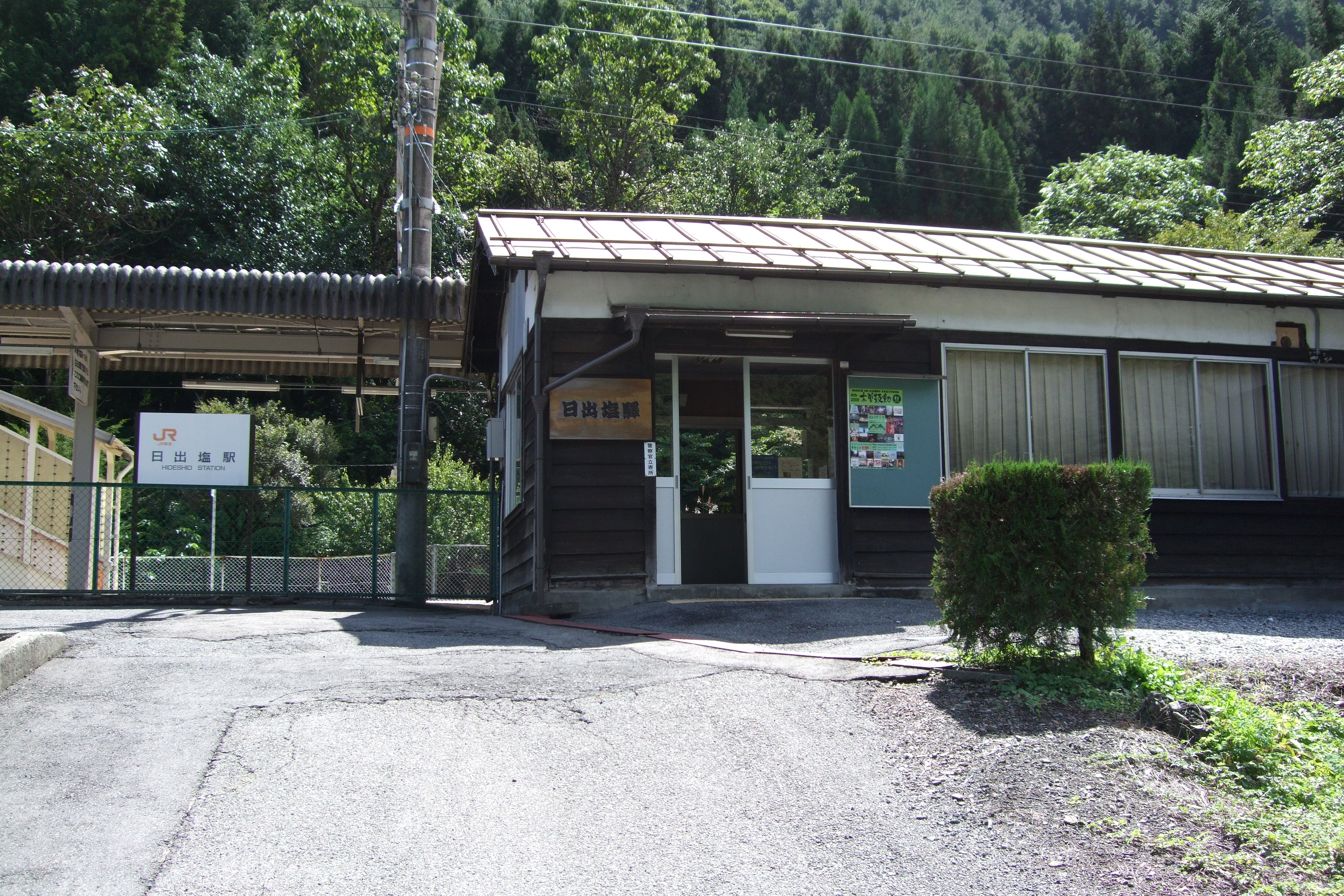 Hideshio Station on JR Chuou Line